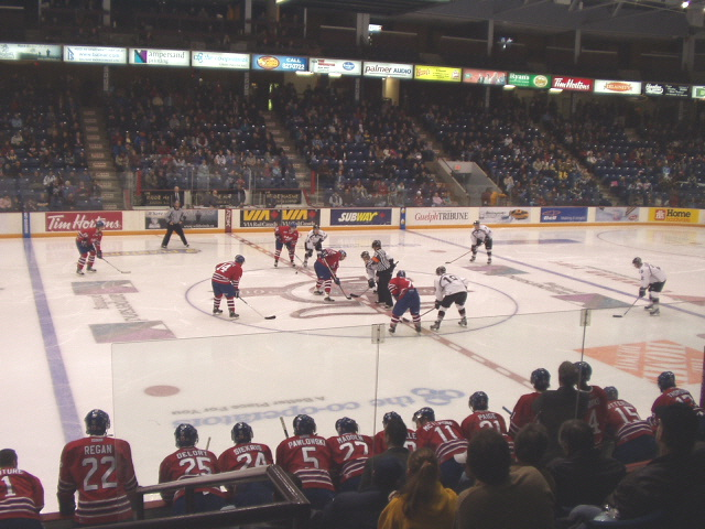 Guelph Storm face-off 2006. self taken photo